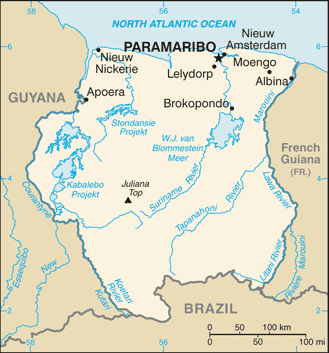 Map of Suriname.